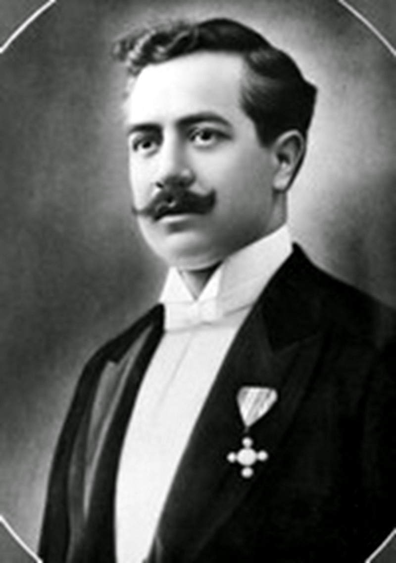 Bulgarian lawyer and major of Sofia Paskal Paskalev (?-1925)